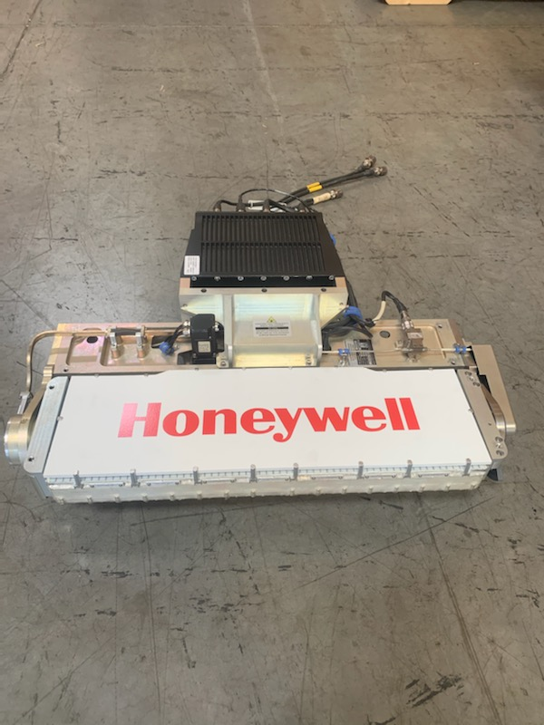 Honeywell’s JetWave satellite communications terminals enable global consistent connectivity via Inmarsat Aviation’s Global Xpress (GX) Ka-band network.